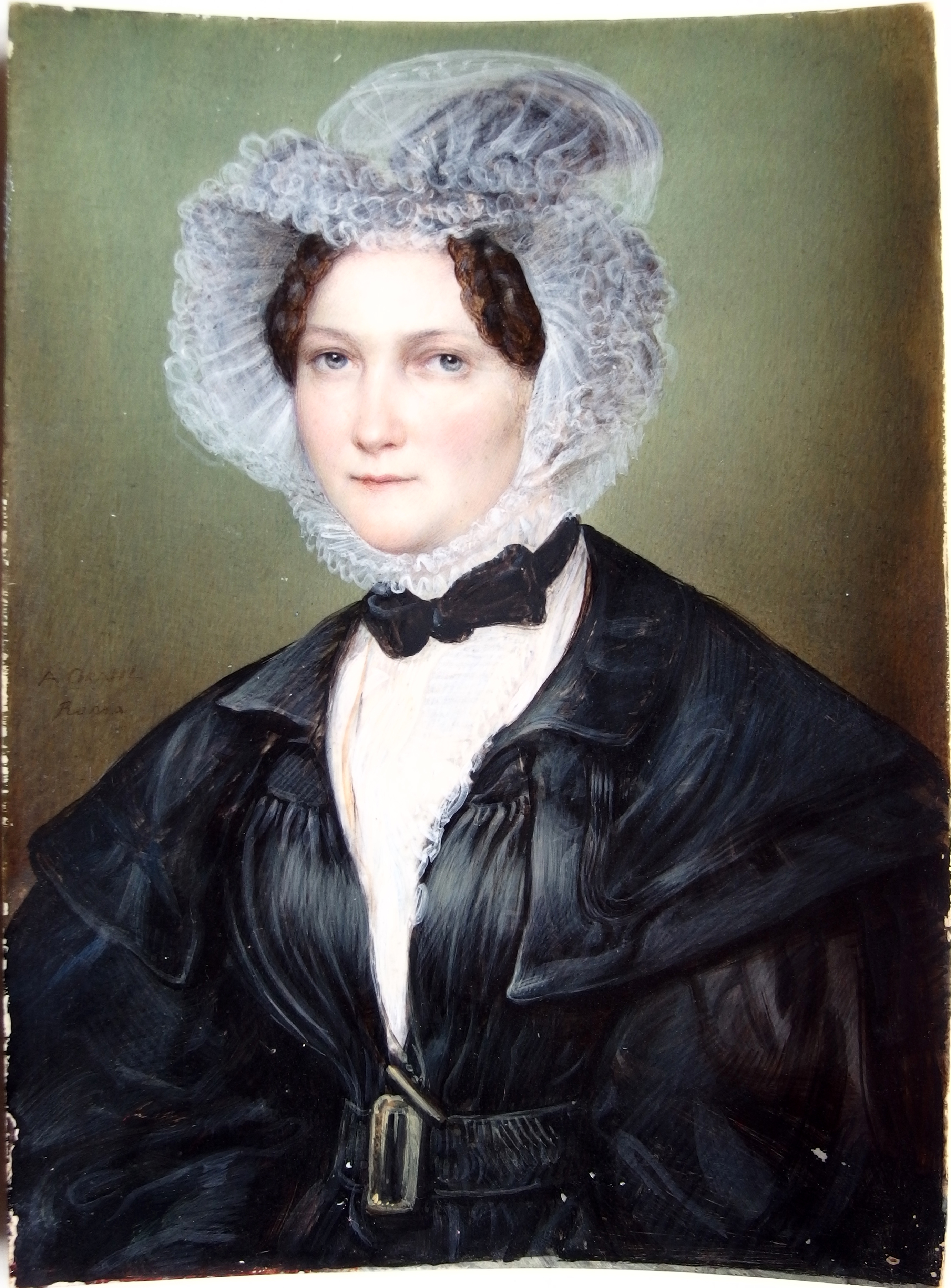 August Grahl, miniature portrait painting on ivory, Rosa Oppenheim, Rom 1830